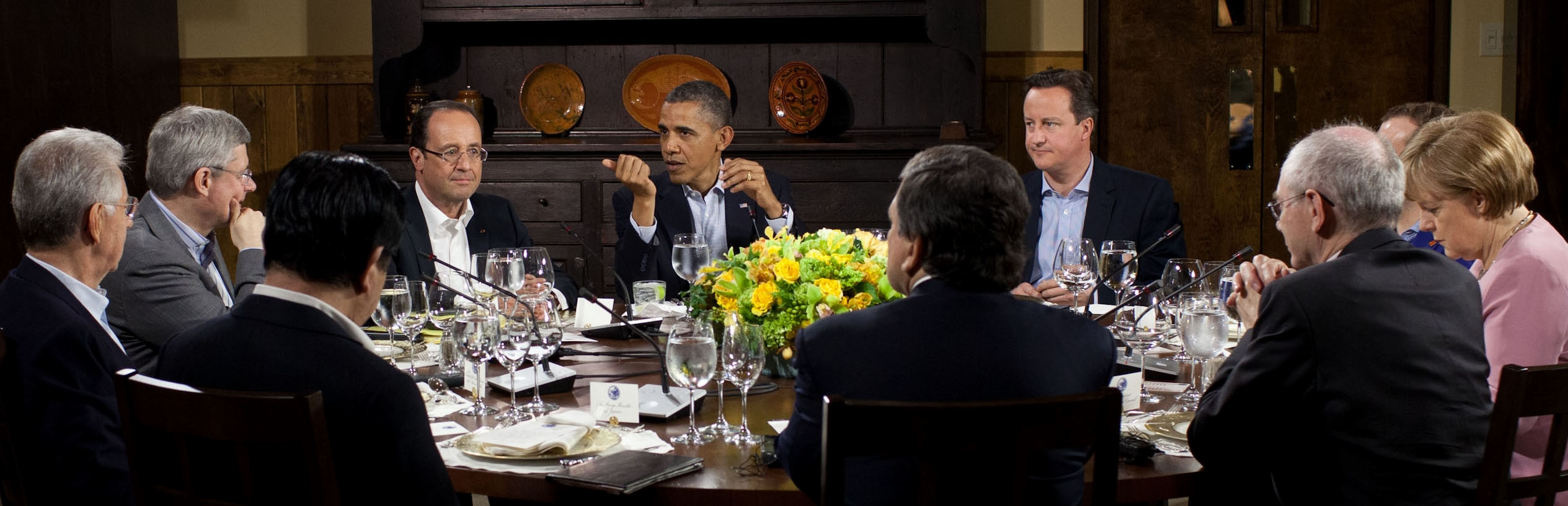 President Barack Obama hosts a working dinner in Laurel Cabin during the G8 Summit at Camp David, Md., May 18, 2012. Seated clockwise from the President are: Prime Minister David Cameron of the United Kingdom, Prime Minister Dmitry Medvedev of Russia, Chancellor Angela Merkel of Germany, Herman Van Rompuy, President of the European Council, José Manuel Barroso, President of the European Commission, Prime Minister Yoshihiko Noda of Japan, Prime Minister Mario Monti of Italy, Prime Minister Stephen Harper of Canada, and President François Hollande of France.